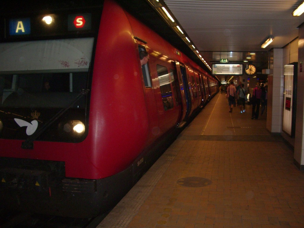 S-Train on Nørreport platform